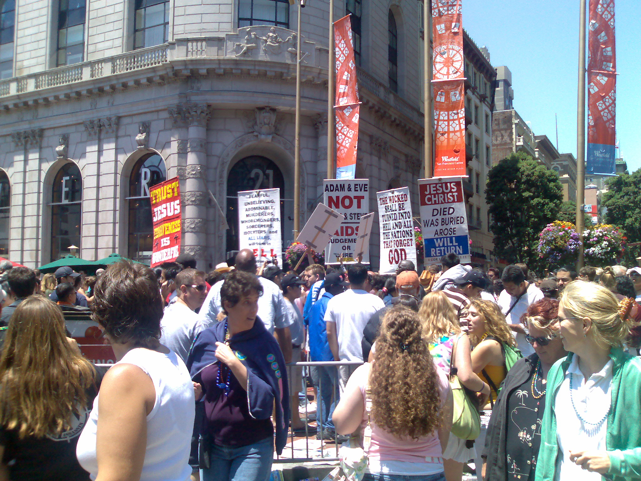 Protesters at 2006 gay pride event. Union Square, San Francisco, United States.